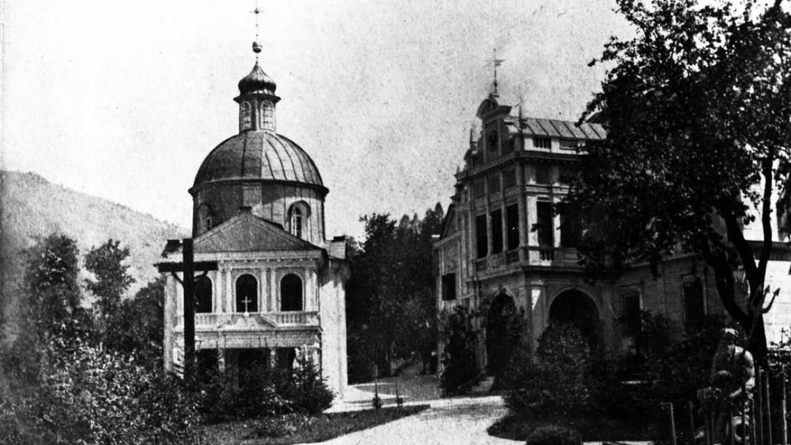 Töpperschloss und Kapelle